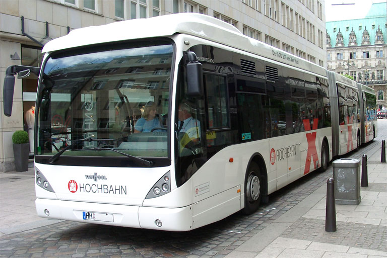 The Van Hool bus with a length of 24,8 metres